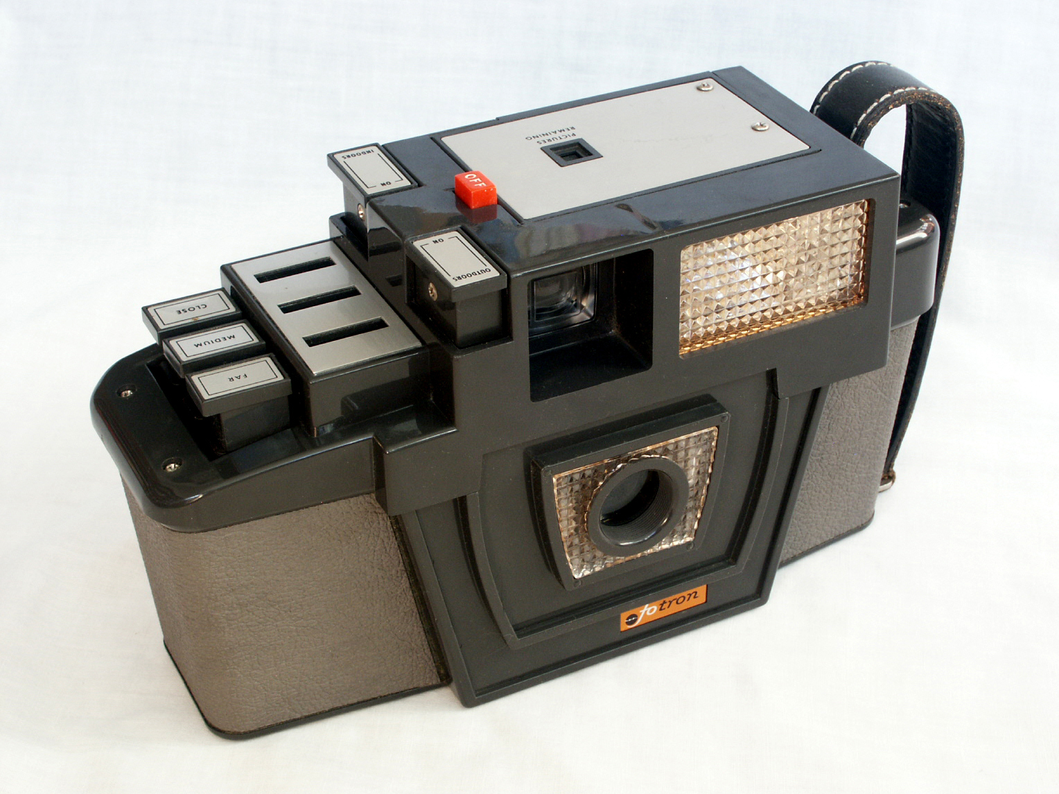 Third model Fotron, 1960s. Photo by camerafiend.